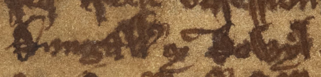 An excerpt from folio 50r of British Library Cotton Julius A VII (the Chronicle of Mann). A transcription of this excerpt appears on page 110 of: Munch, PA; Goss, A, eds. (1874). Chronica Regvm Manniæ et Insvlarvm: The Chronicle of Man and the Sudreys. Vol. 1. Douglas, IM: Manx Society. The excerpt reads: "Dungalli Mac Dowyl". The excerpt refers to Dungal MacDouall (died before 1327/1328).